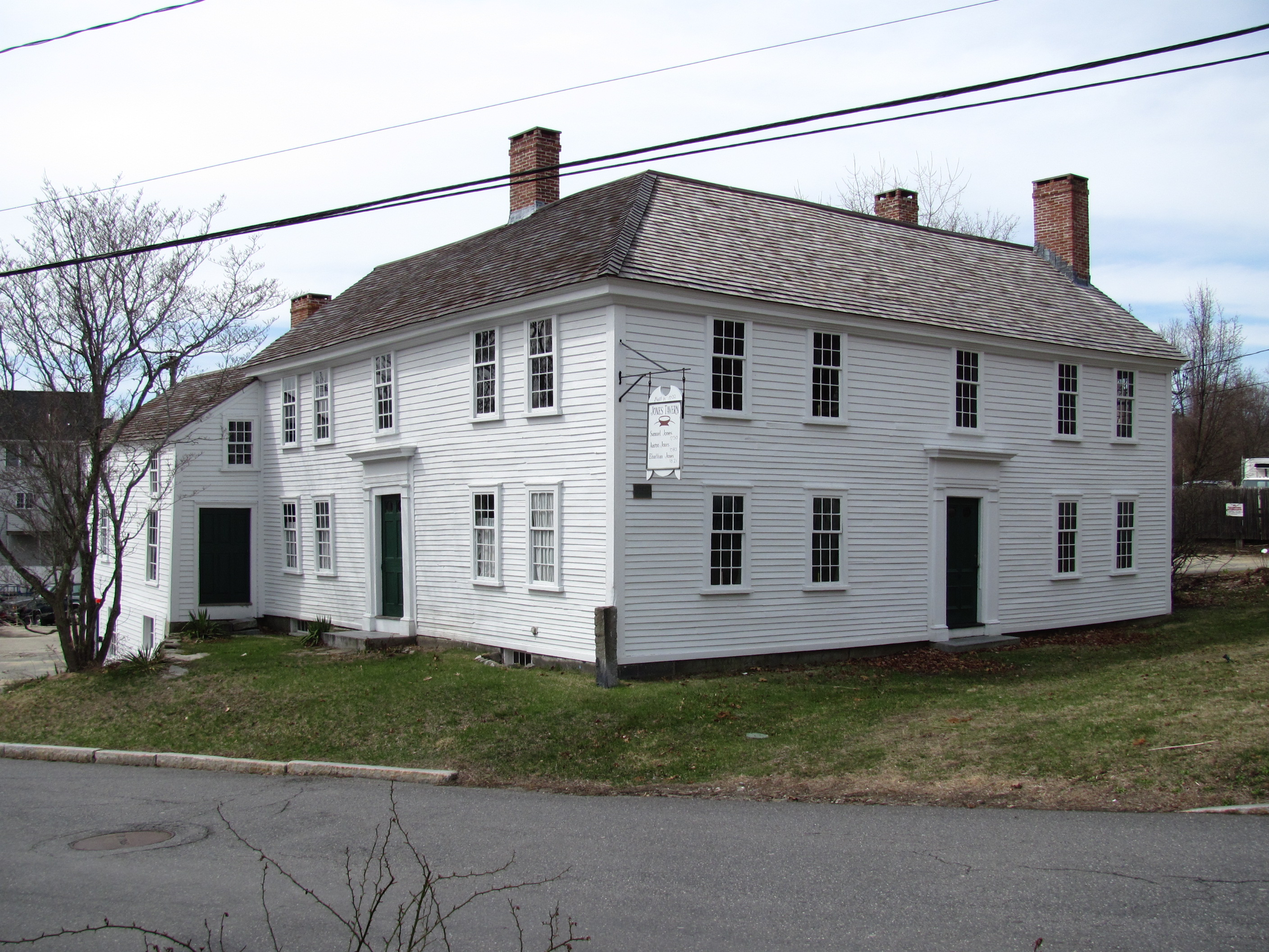 Jones Tavern, South Acton Massachusetts